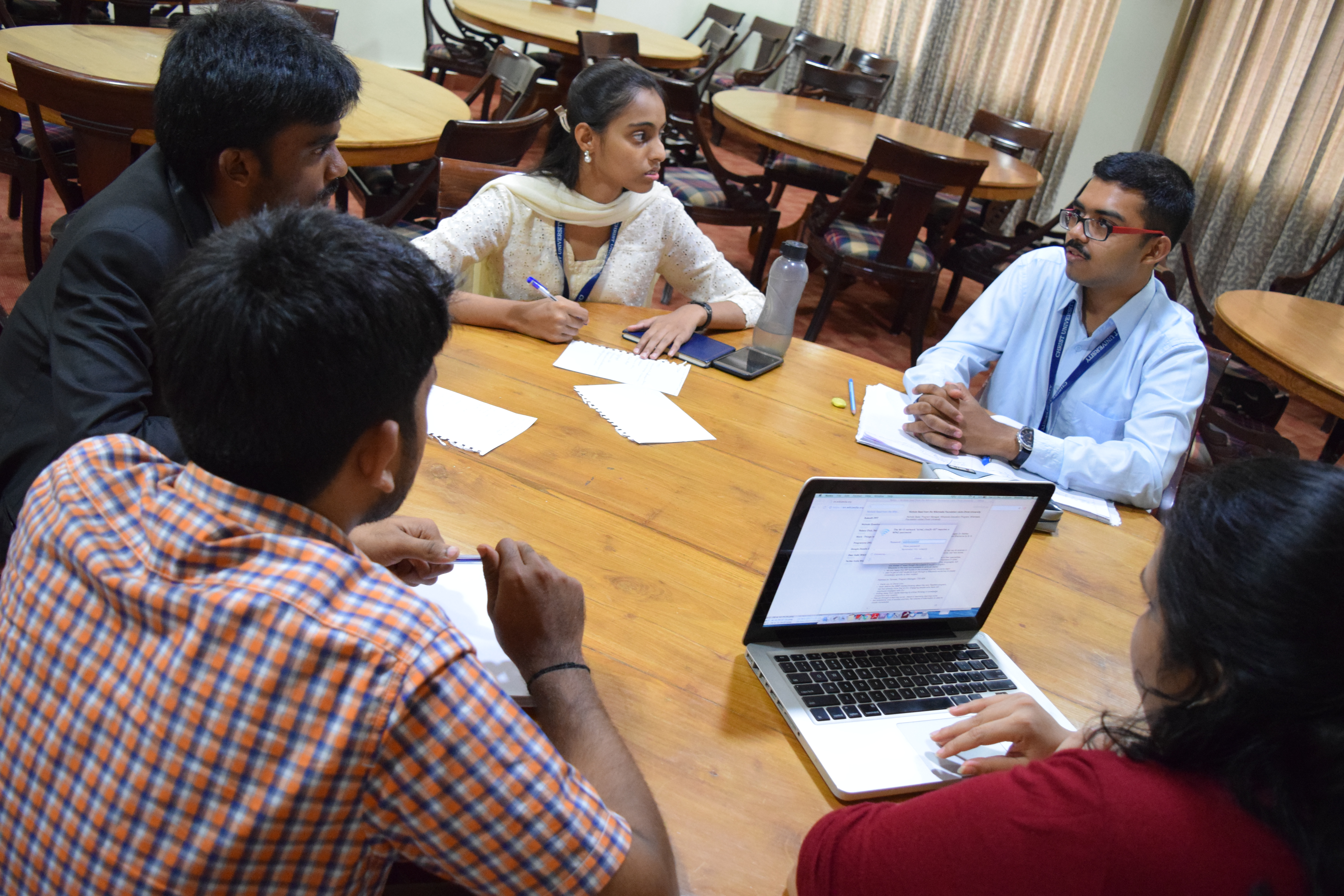 students at Christ University discuss the benefits and challenges of using Wikimedia projects in the classroom